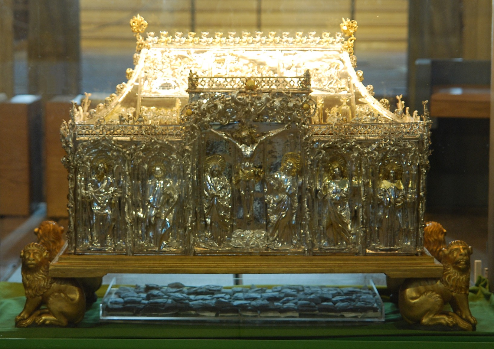 Breisach Minster Silver Shrine.